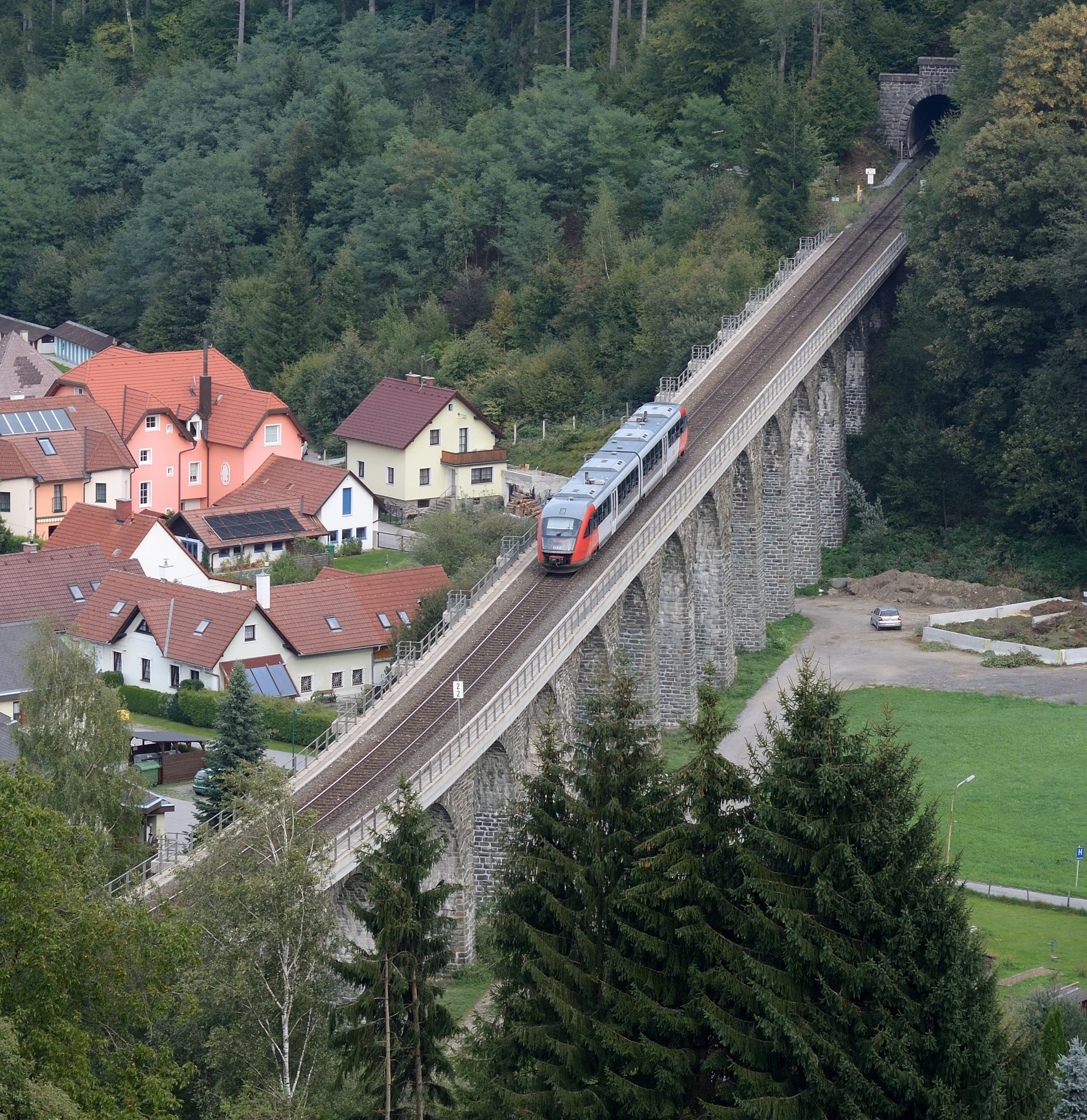 ÖBB 5022 at viaduct of more than 100 year old Wechselbahn, crossing the B54 road and joining Gerichtsbergtunnel and Sambergtunnel